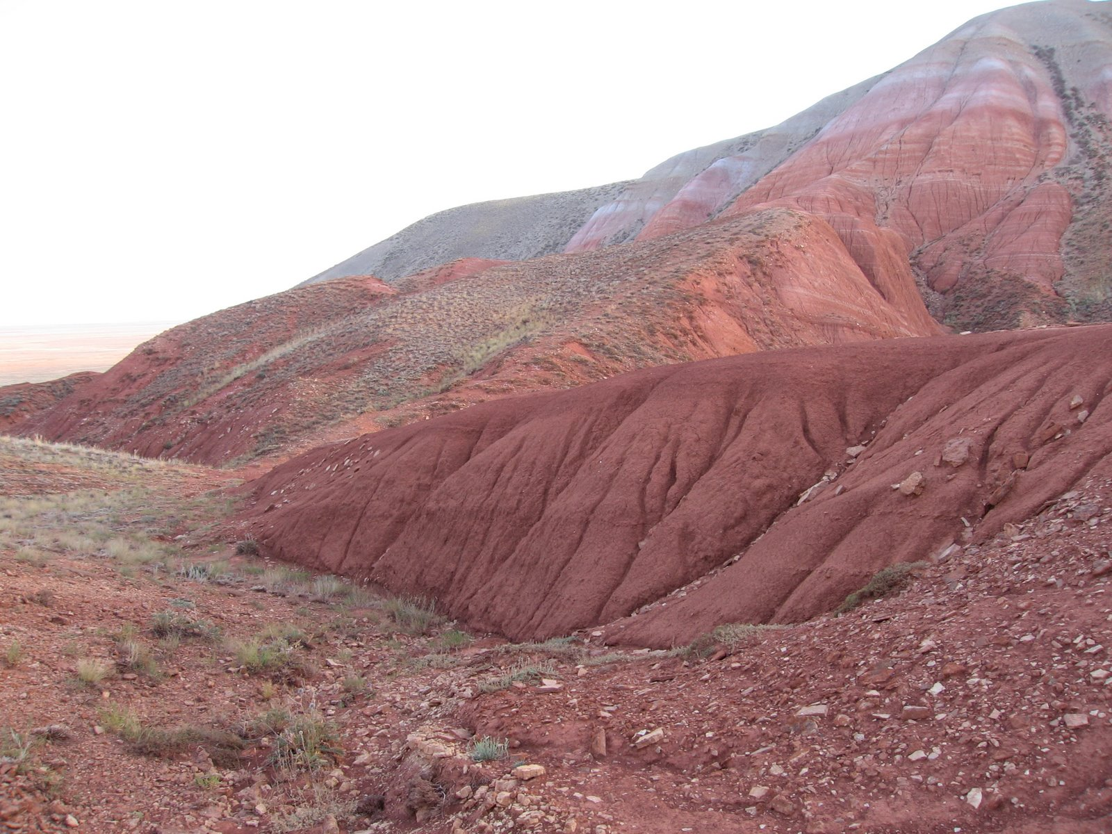 Mount Bolshoye Bogdo.